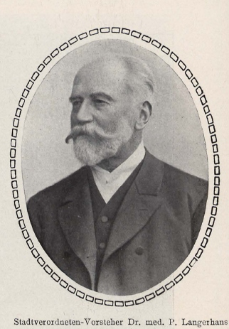 Paul Langerhans (1820-1909), German politician and physician, father to Paul Langerhans (1847-1888)